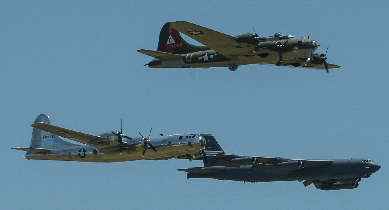 2017 Barksdale Air Force Base Air Show A B-29 Superfortress, B-17 Flying Fortress and B-52 Stratofortress fly in formation at the 2017 Barksdale Air Force Base Airshow, May 6. Held for the first time in 1933, the Barksdale Air Force Base Air Show is a full weekend event showcasing displays of latest as well as historical military and civilian aircraft. (U.S. Air Force photo/Senior Airman Curt Beach)